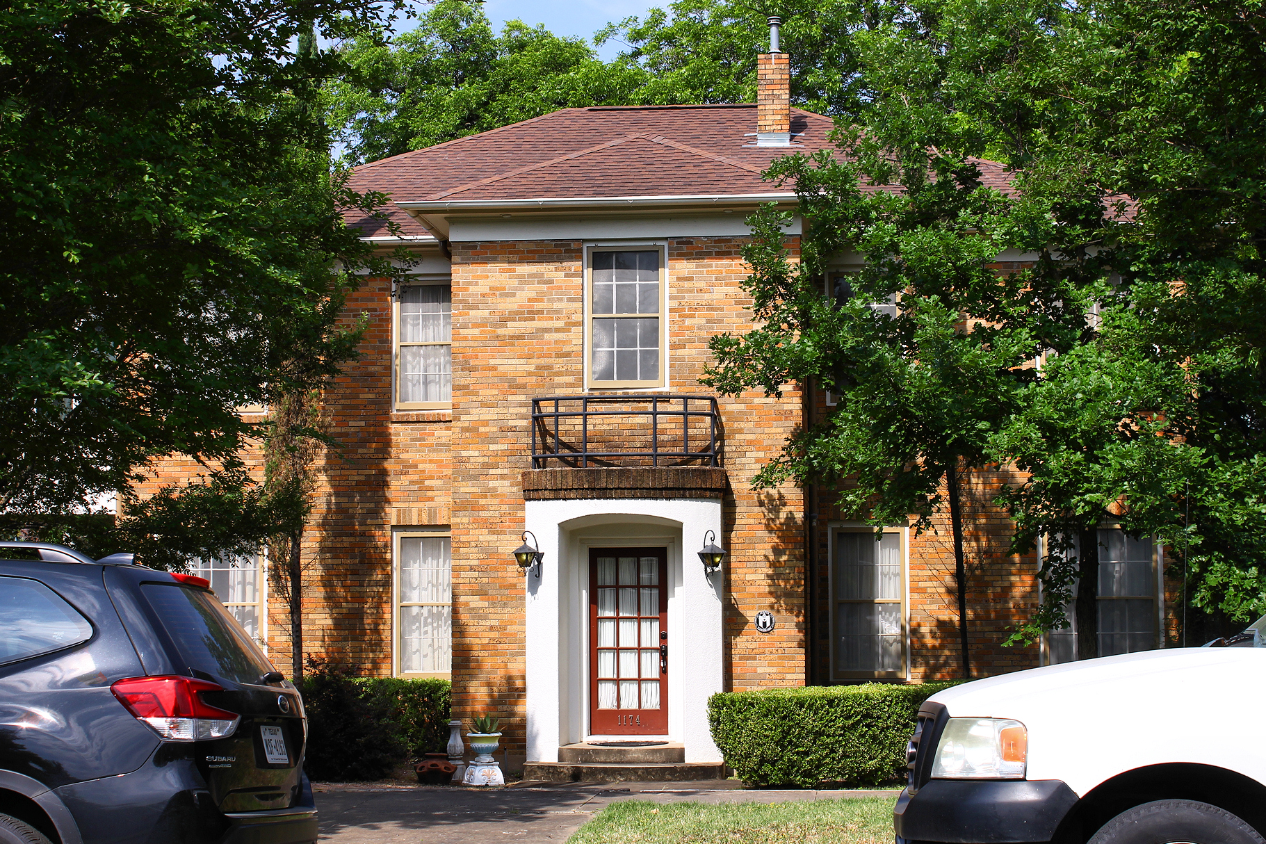 Roberts Clinic, a historic Colonial Revival building completed in 1937, was the first medical facility in Austin, Texas established to provide hospital rooms and care exclusively for African-Americans in the time of segregation in the United States. The building was listed on the National Register of Historic Places on September 12, 2019.